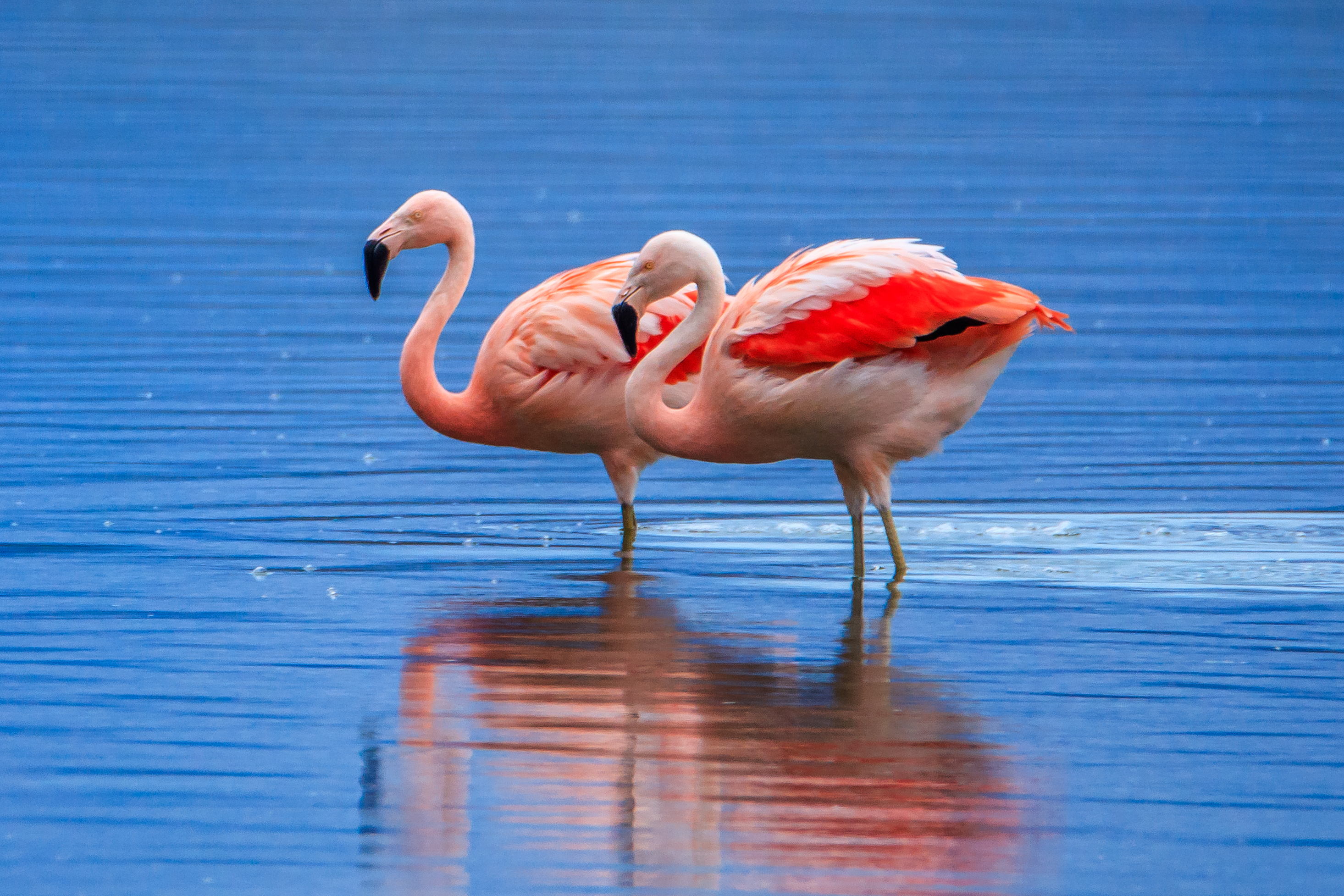 wildlife in and around Reserva Laguna Nimez in El Calafate, Argentina...Chilaen Flamingo (Phoenicopterus chilensis)...